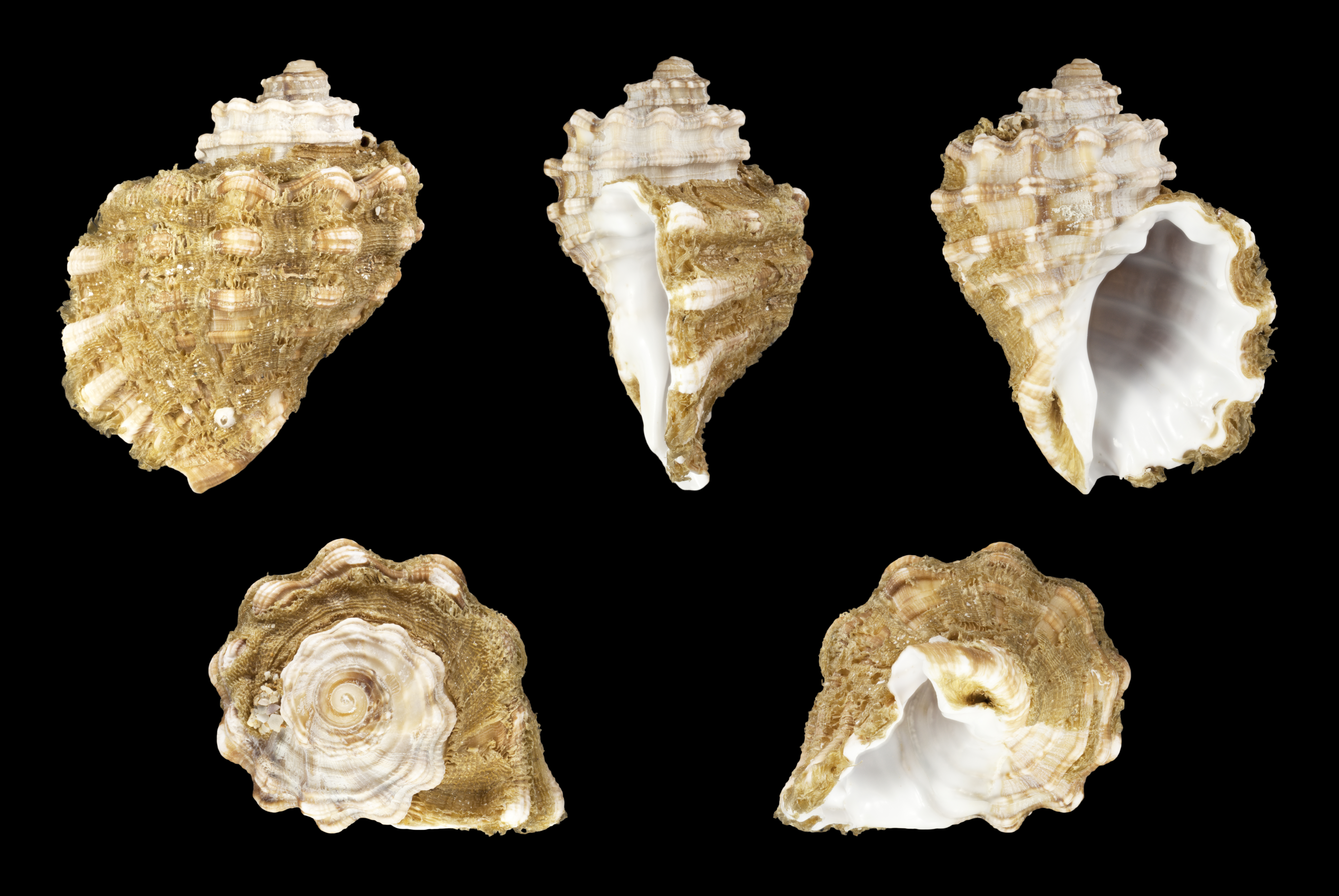 Cabestana cutacea dolaria (Linné, 1767) , Ringed African Triton; Length 4.9 cm; Originating from El Ouatia, Morocco. Shell of own collection, therefore not geocoded.